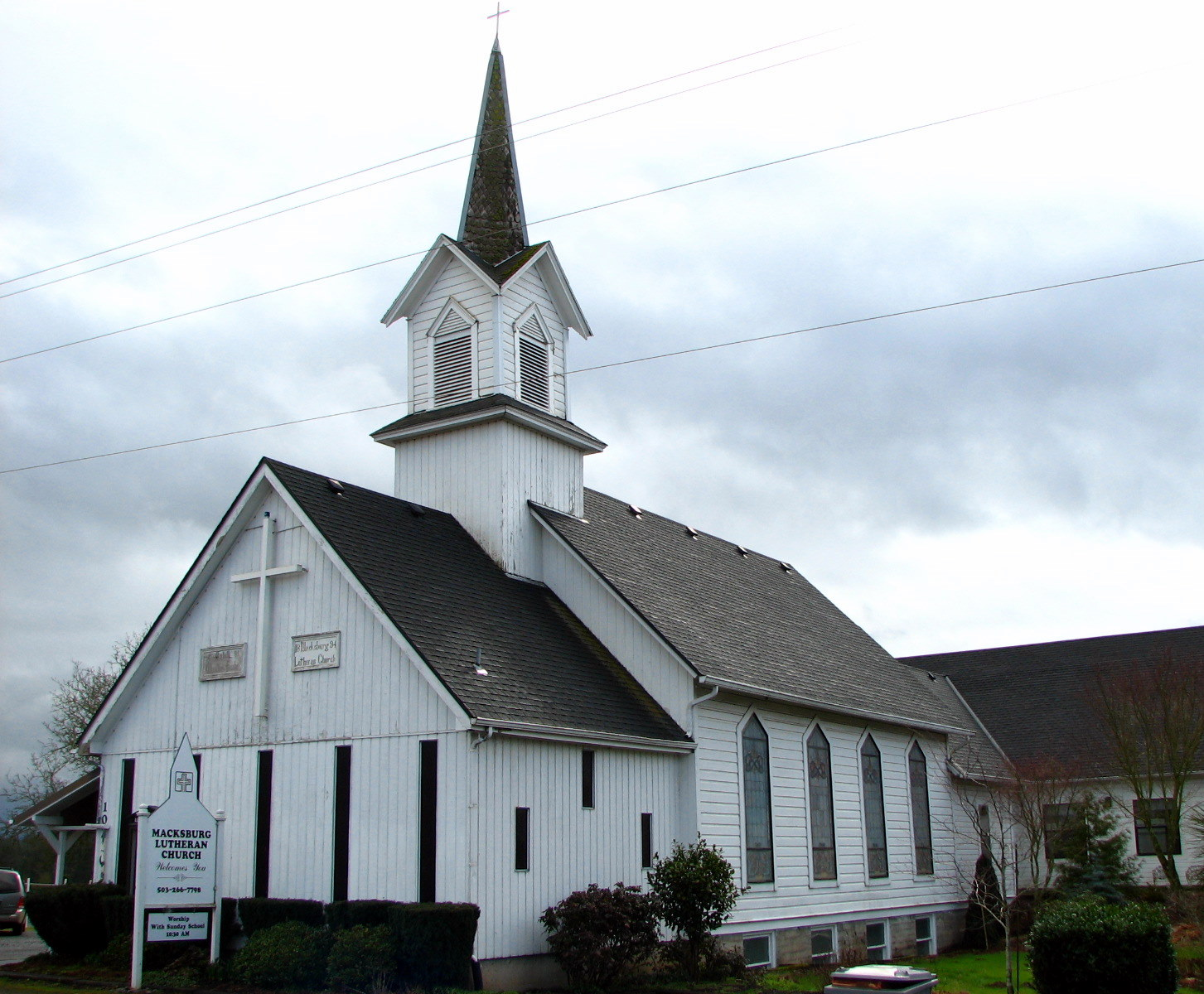 The historic Macksburg Lutheran Church (originally built 1892), located at 10190 South Macksburg Road near Canby, Oregon, United States, is listed on the US National Register of Historic Places. It remains an active parish.